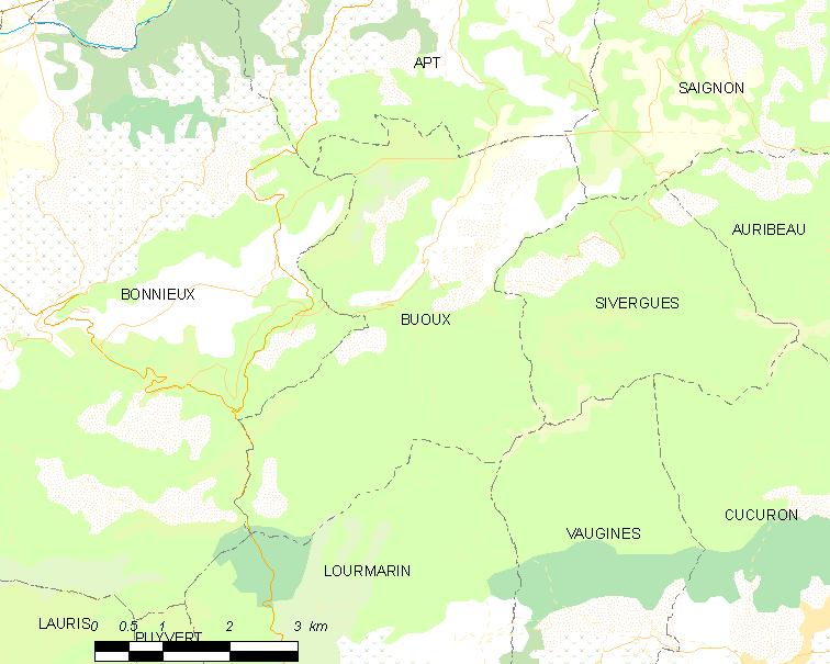 Map of French municipality Buoux